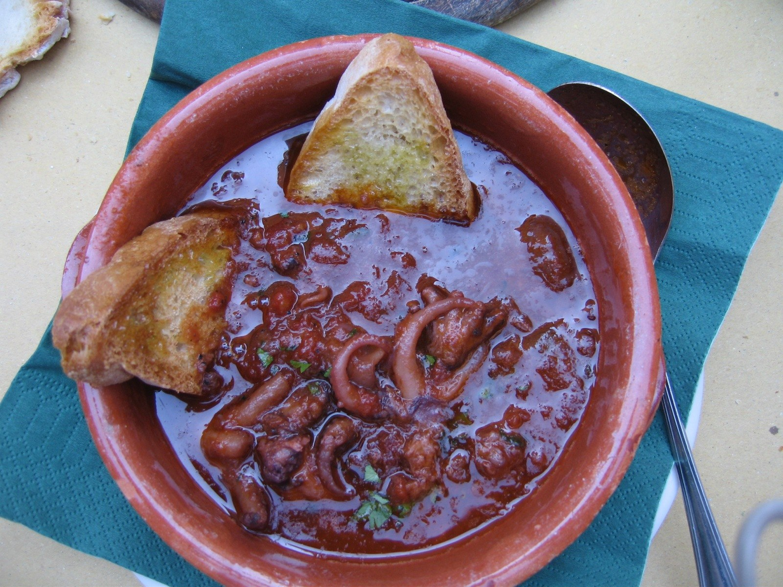 Moscardini in guazzetto, Italian cuisine.